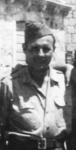 Ljubo Truta